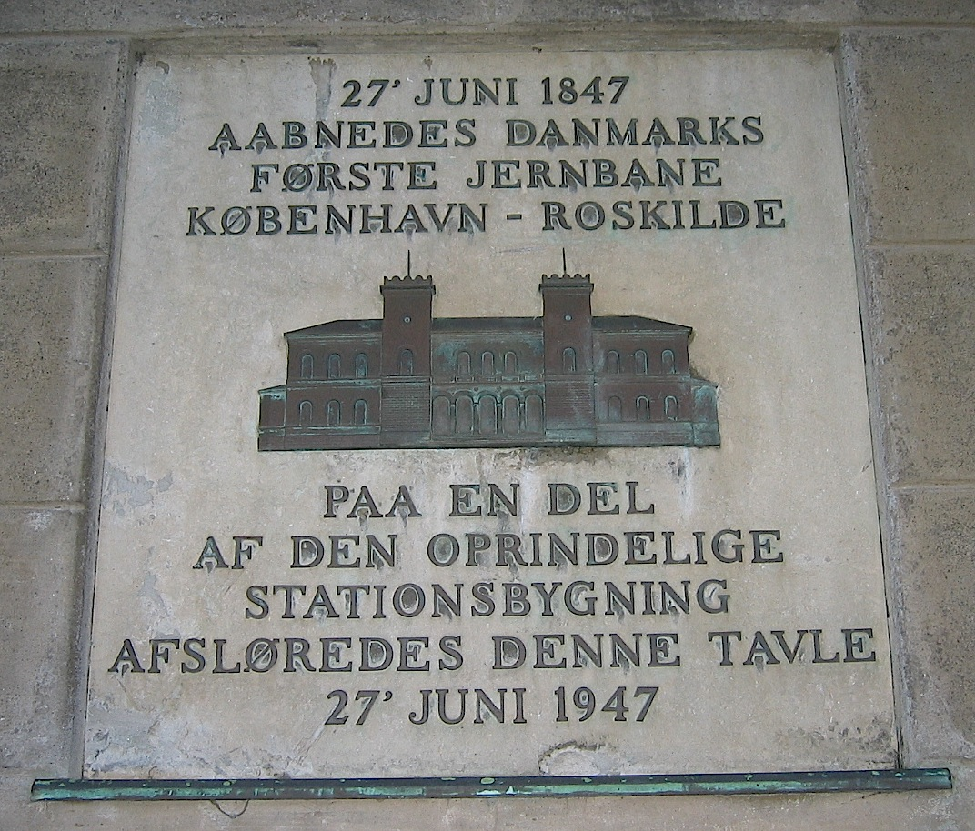 The railway station in Roskilde, Denmark. The memorial plaque marking centenary of the Copenhagen-Roskilde railway line opened on 27th June 1847